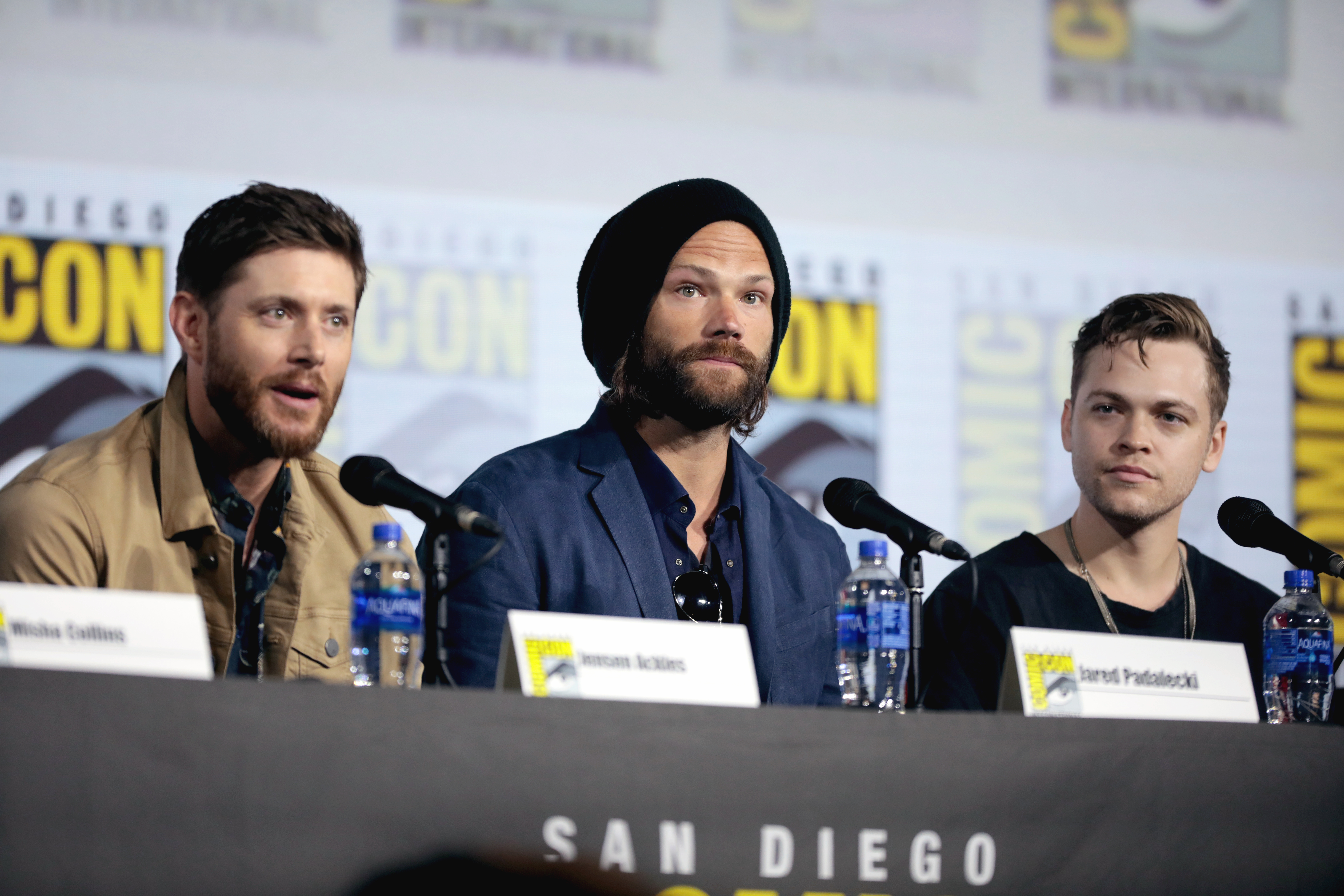 Jensen Ackles, Jared Padalecki and Alexander Calvert speaking at the 2019 San Diego Comic Con International, for "Supernatural", at the San Diego Convention Center in San Diego, California.